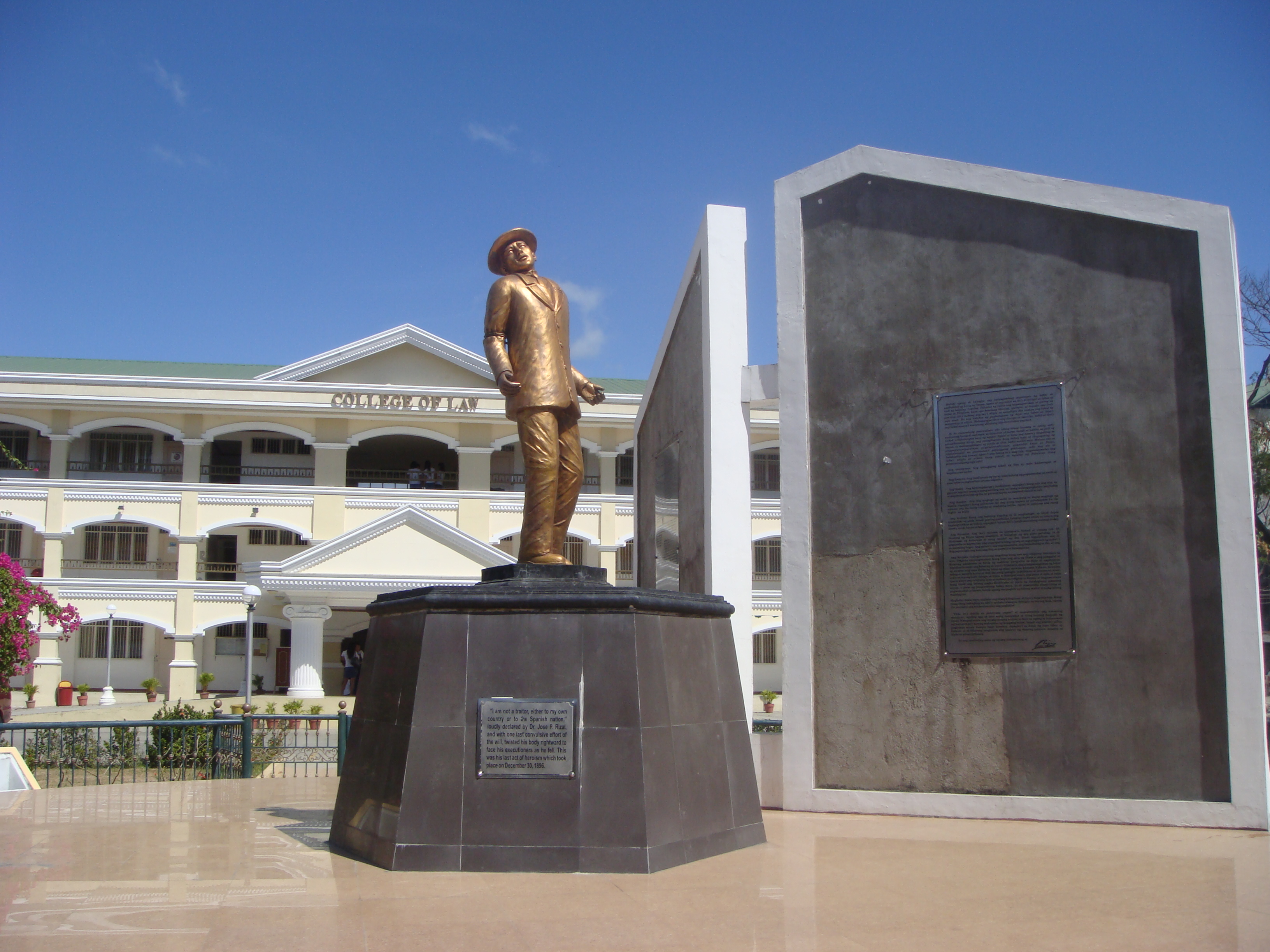 The Mini (José) Rizal Park, BSU